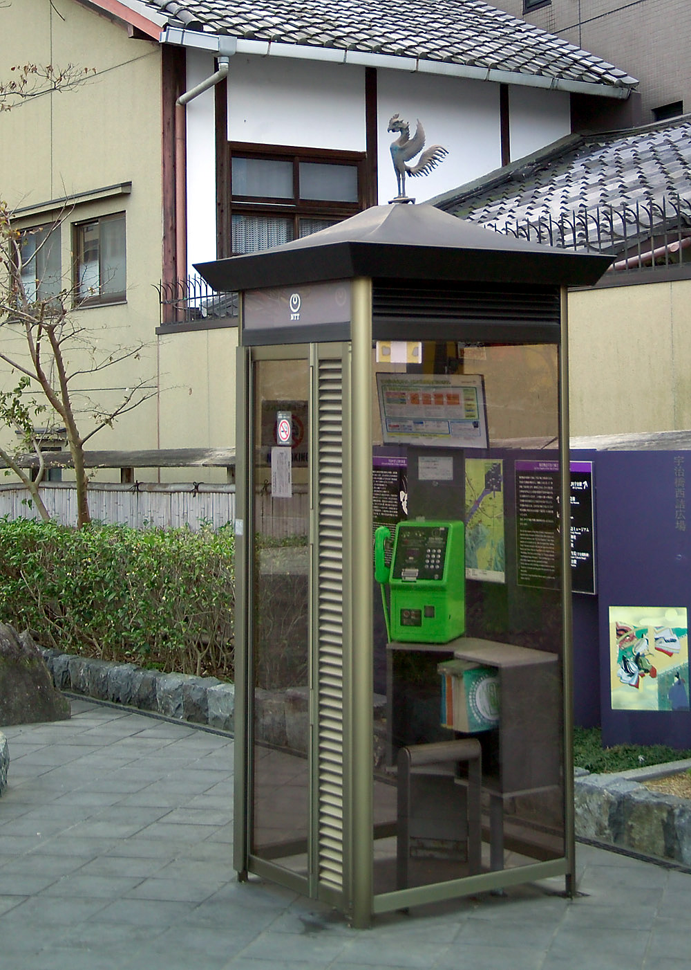 Telephone booth. Uji, Kyoto prefecture, Japan. I took this photo and contribute all my rights in the file to the public domain; individuals and organizations retain rights to images in it.